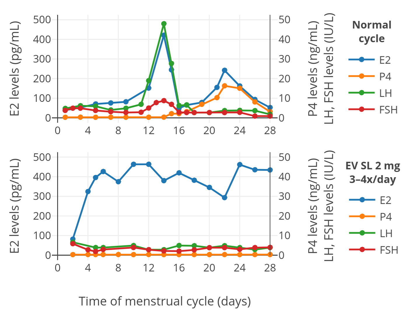 Levels of estradiol (E2) (pg/mL), progesterone (P4) (ng/mL), luteinizing hormone (LH) (IU/L), and follicle-stimulating hormone (FSH) (IU/L) with 2-mg oral micronized estradiol valerate tablets (Progynova, Schering) taken 3 or 4 times per day in premenopausal women (bottom plot). The normal menstrual cycle in a control group of premenopausal women is also shown (top plot). The time of blood collection after sublingual estradiol administration was not specified. Some relevant literature excerpts: "The E2 concentration achieved with the oral route is sufficient to prime the endometrium, in spite of the rapid metabolism through the enterohepatic circulation, and if necessary, oestradiol valerate may be given sublingually to bypass it.9 Higher plasma concentrations of E2 are achieved than with the oral route, using the same dosages. As with the oral route, there is an increase in the oestrone (E1):E2 ratio." "[...] oral E2 therapy may not always be so effective in suppressing ovulation in some patients, especially in the young cyclic woman (Fig. 3). In an attempt to bypass the enterohepatic circulation, where most of the orally absorbed E2 is quickly metabolised, we used the sublingual route and obtained higher circulating levels with good cycle control (Fig. 4).9" "Effective cycle control can be achieved in cycling women either by giving LH-RHa and then oestrogens, or by use of oestrogen alone, provided it is given by a route that results in effective circulating levels (eg, sublingually)." Sources of the values/information: (July 1990). "Oocyte donation and surrogacy". Br. Med. Bull. 46 (3): 796–812. PMID 2207608. (May 1989). "Oocyte donation in 61 patients". Lancet 1 (8648): 1185–7. PMID 2566746.